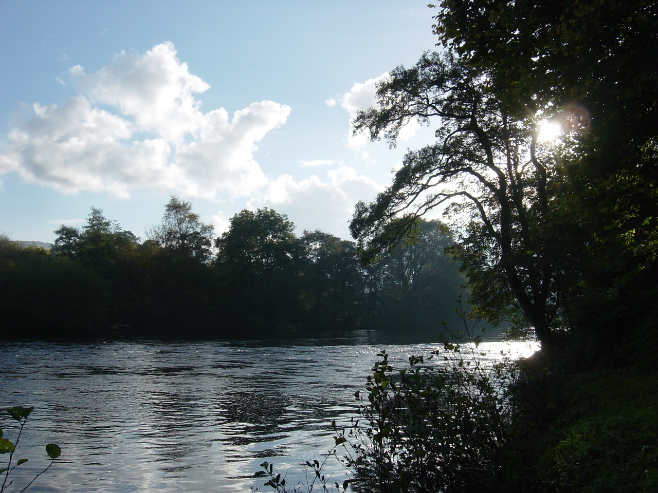 the river tay near aberfeldy, scotland creator:User:Jamieli